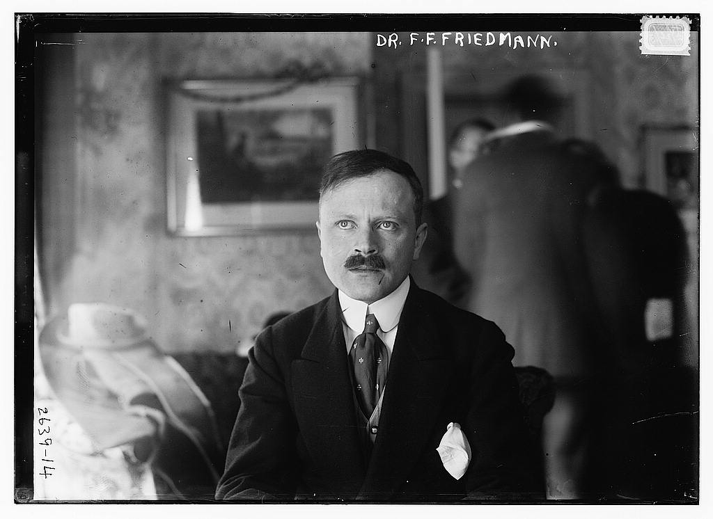 Bain News Service,, publisher. Dr. Friedrich Franz Friedmann in 1913 [no date recorded on caption card] 1 negative : glass ; 5 x 7 in. or smaller. Notes: Title from unverified data provided by the Bain News Service on the negatives or caption cards. Forms part of: George Grantham Bain Collection (Library of Congress). Format: Glass negatives. Repository: Library of Congress, Prints and Photographs Division, Washington, D.C. 20540 USA, General information about the Bain Collection is available at Persistent URL: Call Number: LC-B2- 2639-14